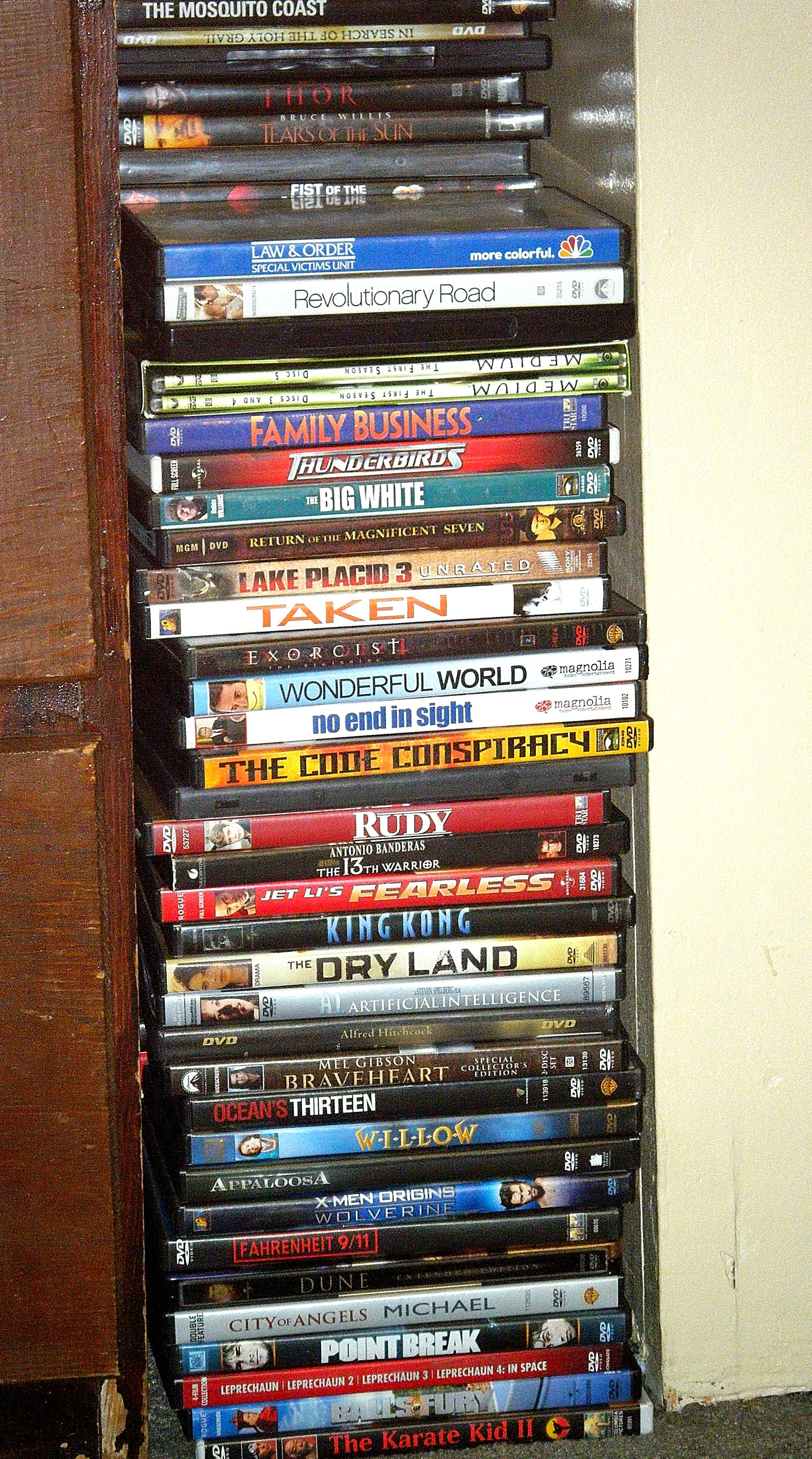 A stack of DVD movies.